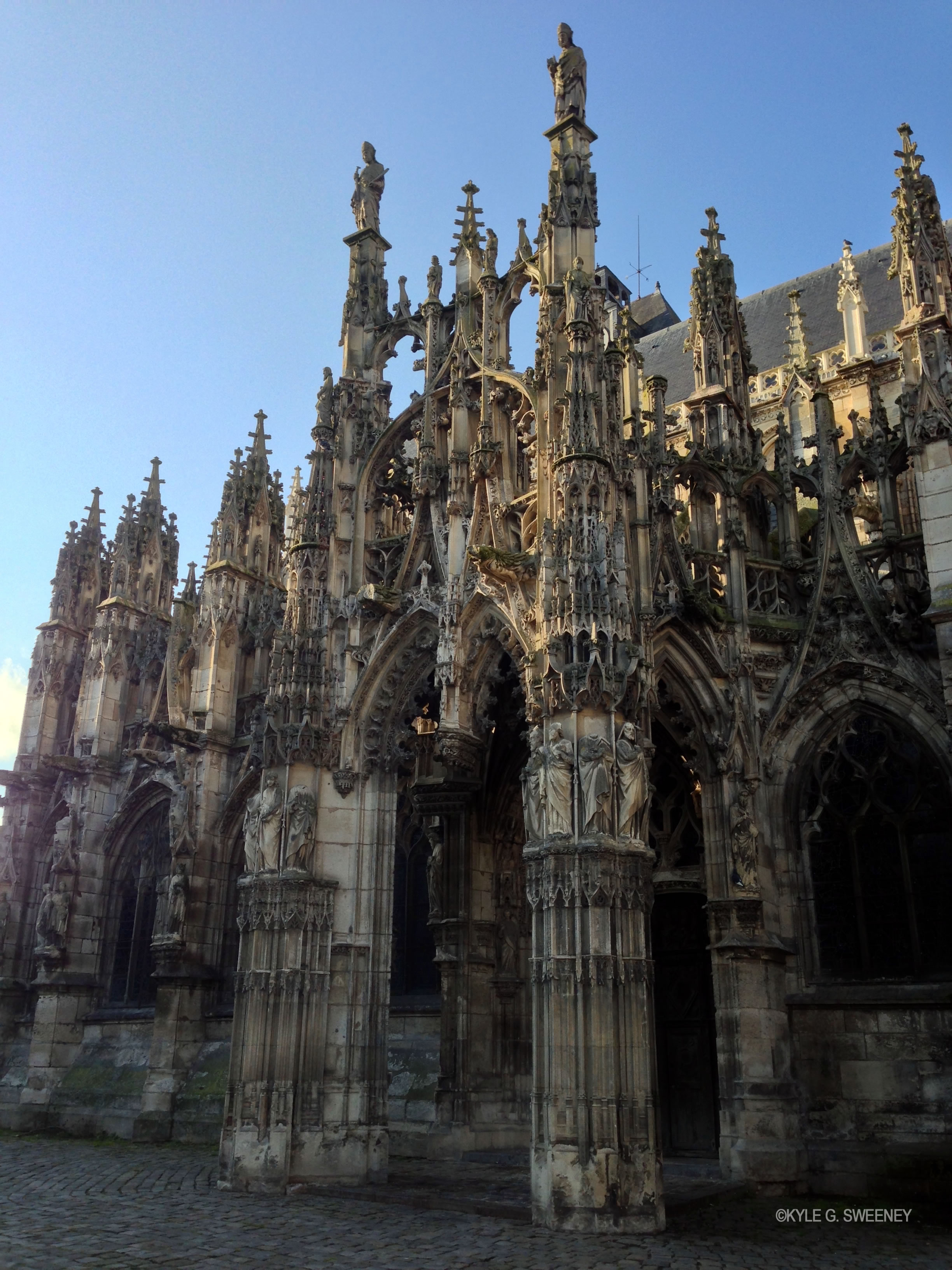 View of the south porch of Notre-Dame de Louviers from the southeast.